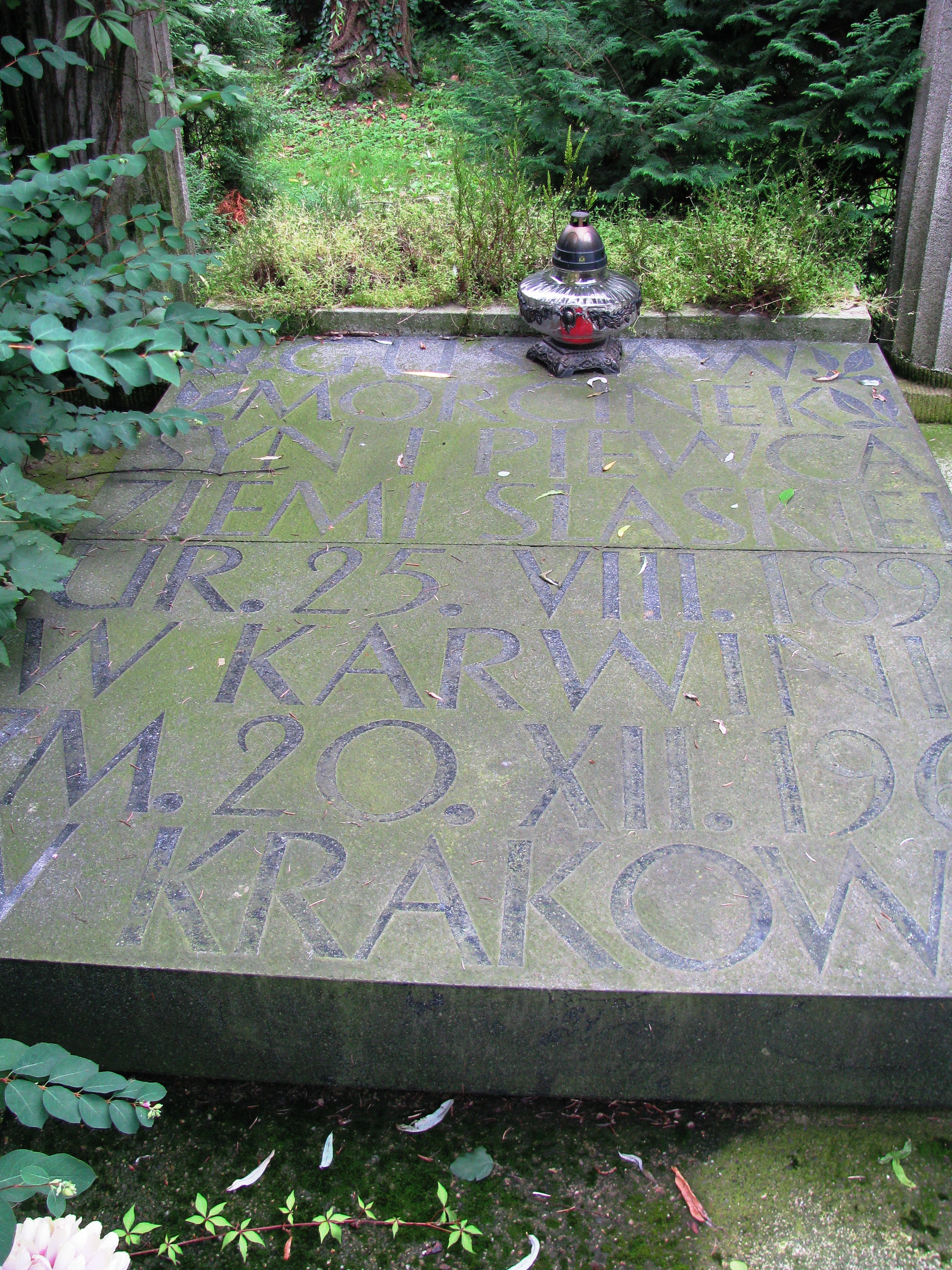 This tomb stone, in Cieszyn Communal Cemetery, was laid in memory of Gustaw Morcinek who was born on 25 August 1891 in Karvina and died on 20 July 1963 in Kraków. He was a teacher, Polish activist, and politician, but was best known for his books which gained him the reputation of being one of the foremost writers to come from Silesia. The Scotch Mist Gallery contains many photographs of historic buildings, monuments and memorials of Poland.